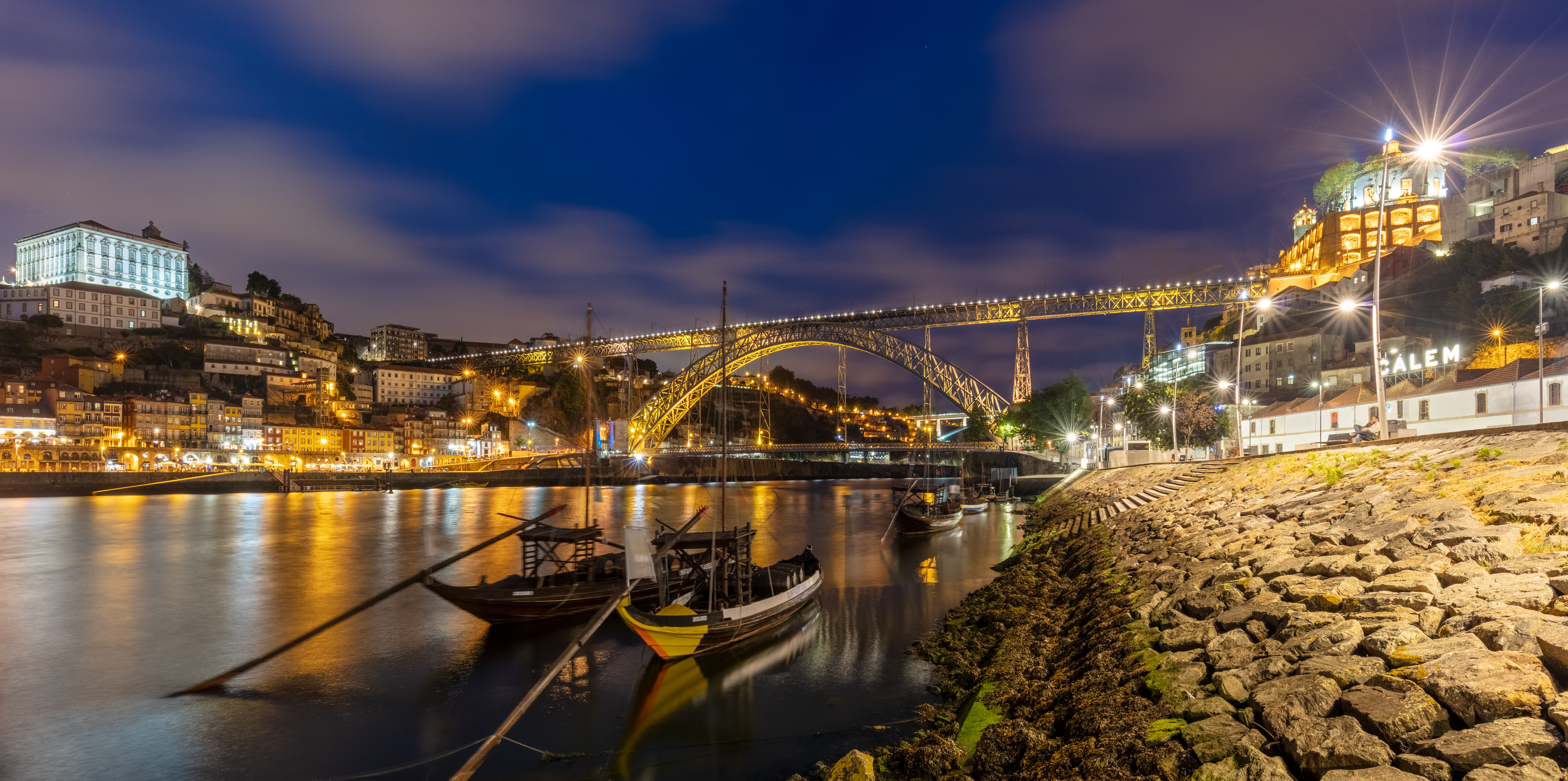 View during the blue hour of the Dom Luís I Bridge and the city of Porto, Portugal. The bridge, built between 1881 and 1886 spans the Douro River to connect Porto with Vila Nova de Gaia.